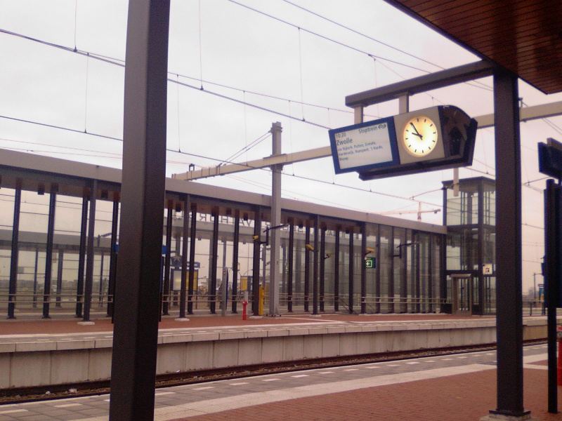 Spoor 3 op treinstation Amersfoort Vathorst(NS)